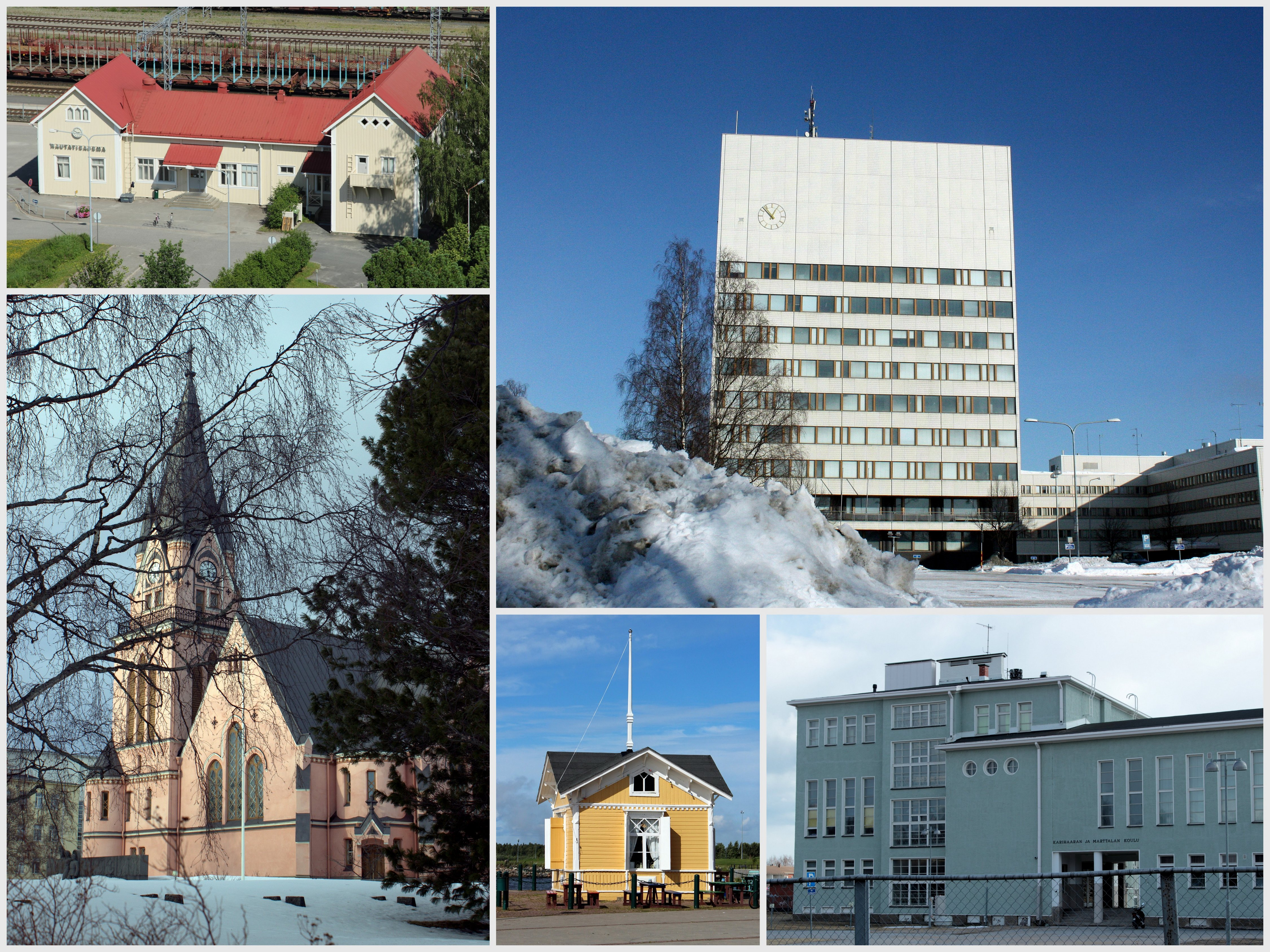 Montage of Kemi, Finland.